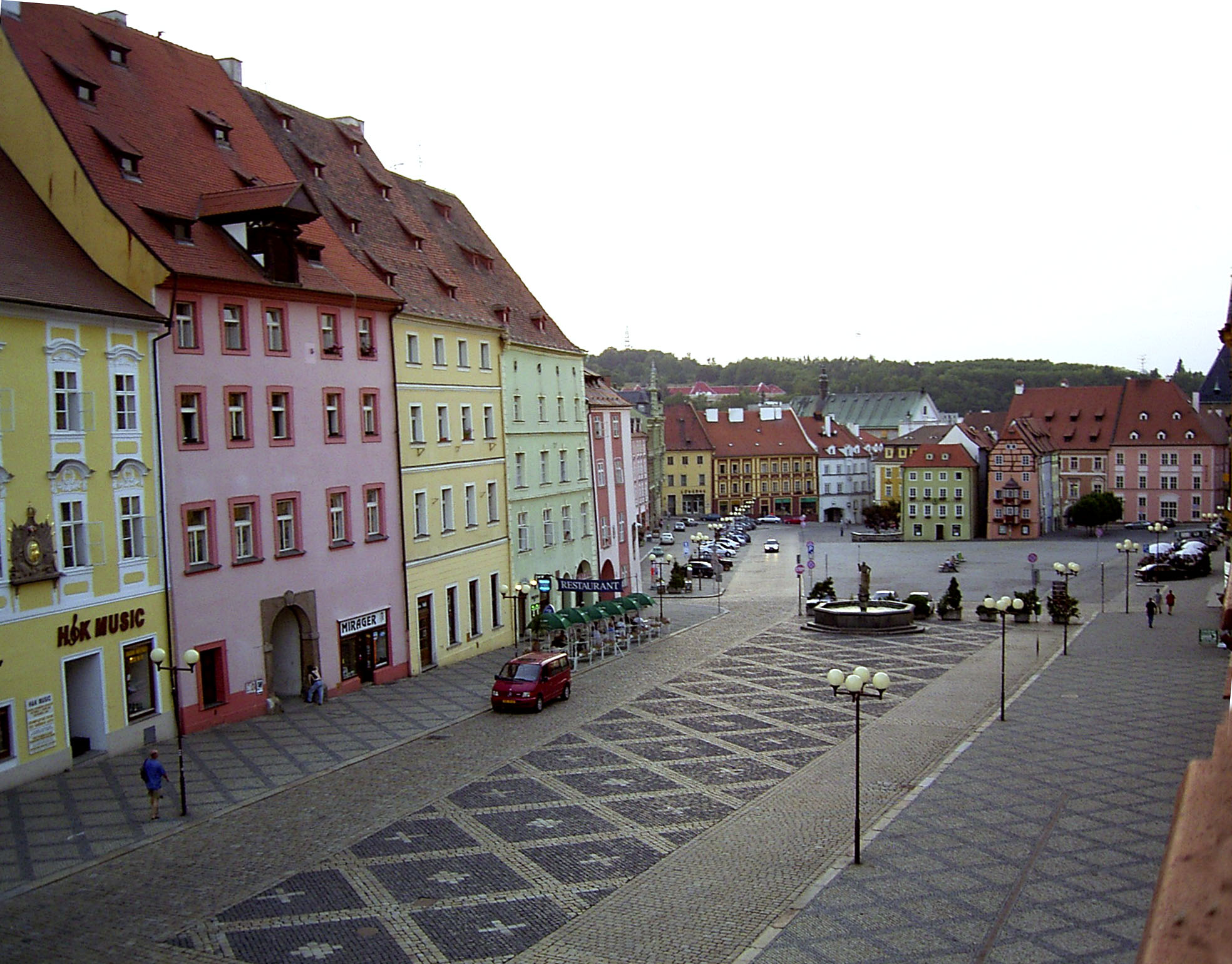 The market square of Cheb/Eger in Western Bohemia, Czech Republic.